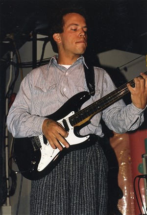 David Bryson of Counting Crows, playing with his earlier band, Mr Dog - Berkeley Square in Berkeley, California (supporting Crowded House) - February 1987